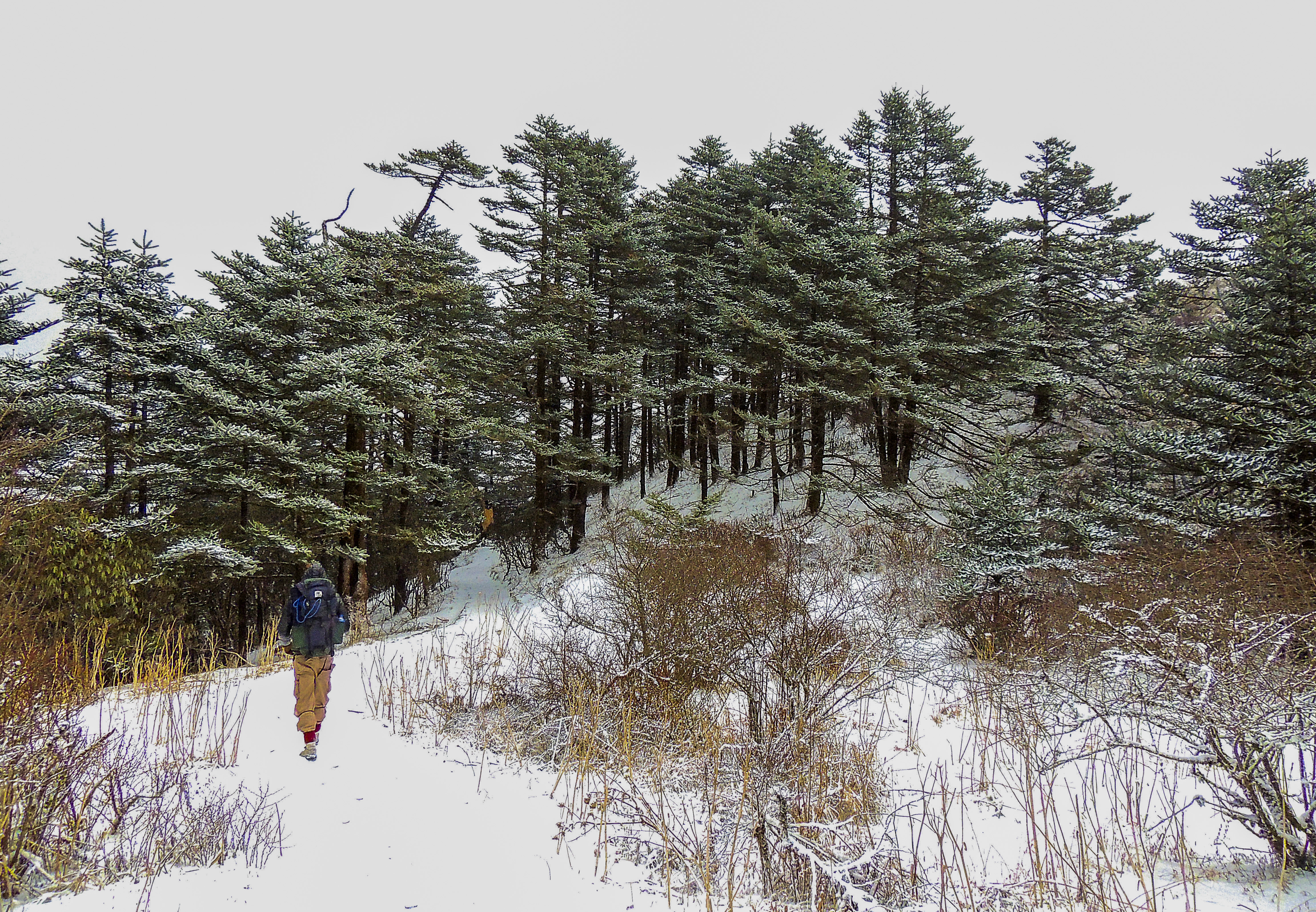 I captured this image while we were returning back from Sandakphu trekking, West Bengal's highest peak. Due to previous night's heavy snowfall the whole area was covered by snow. The trees are Abies densa.